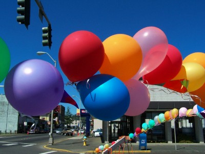 This is the only shot I could get of Hoquiams art festival because I was working, but luckily I work in the coffee shop right next door, so I could at least see it a little!